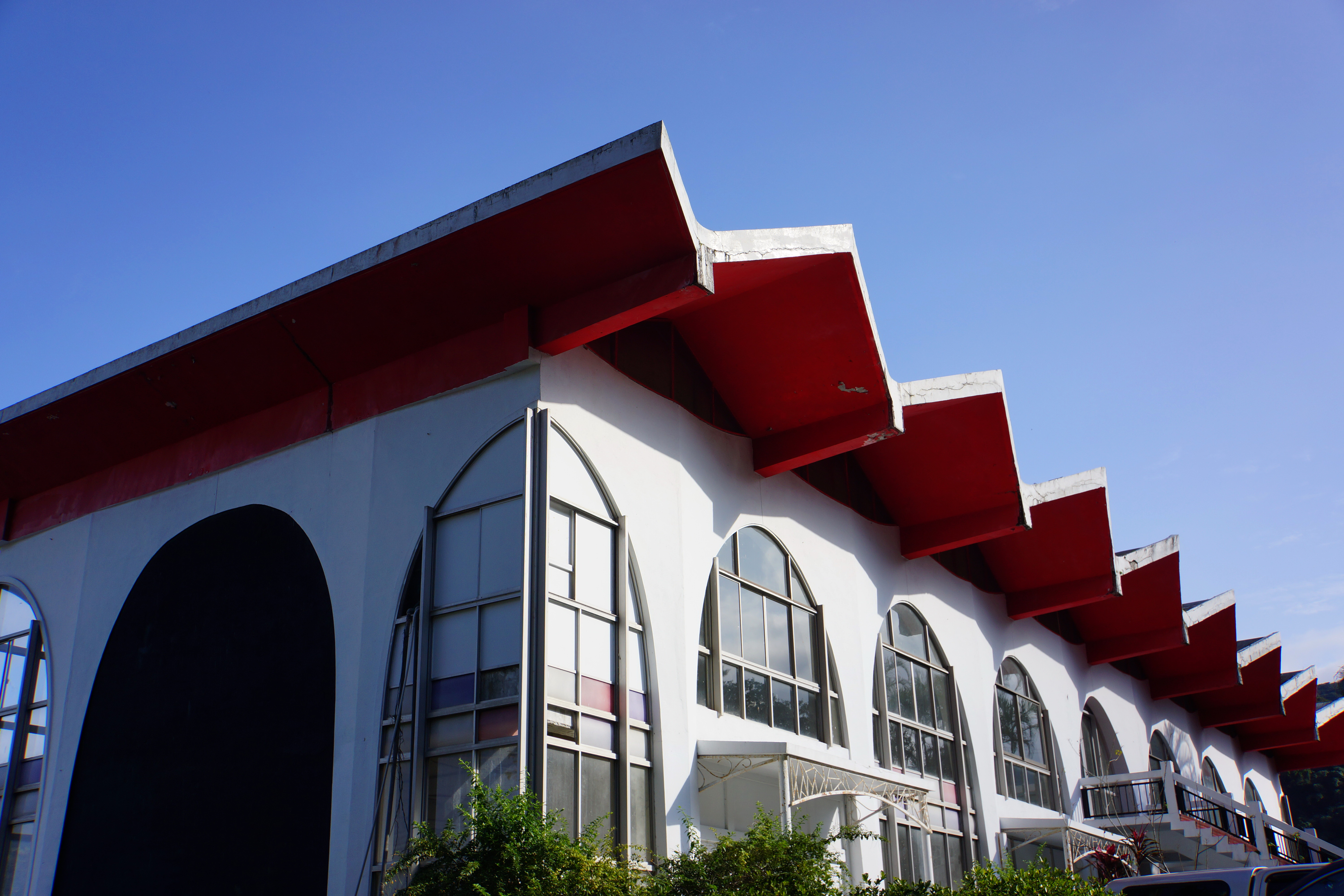 花園新城 Huayuan Xincheng Community